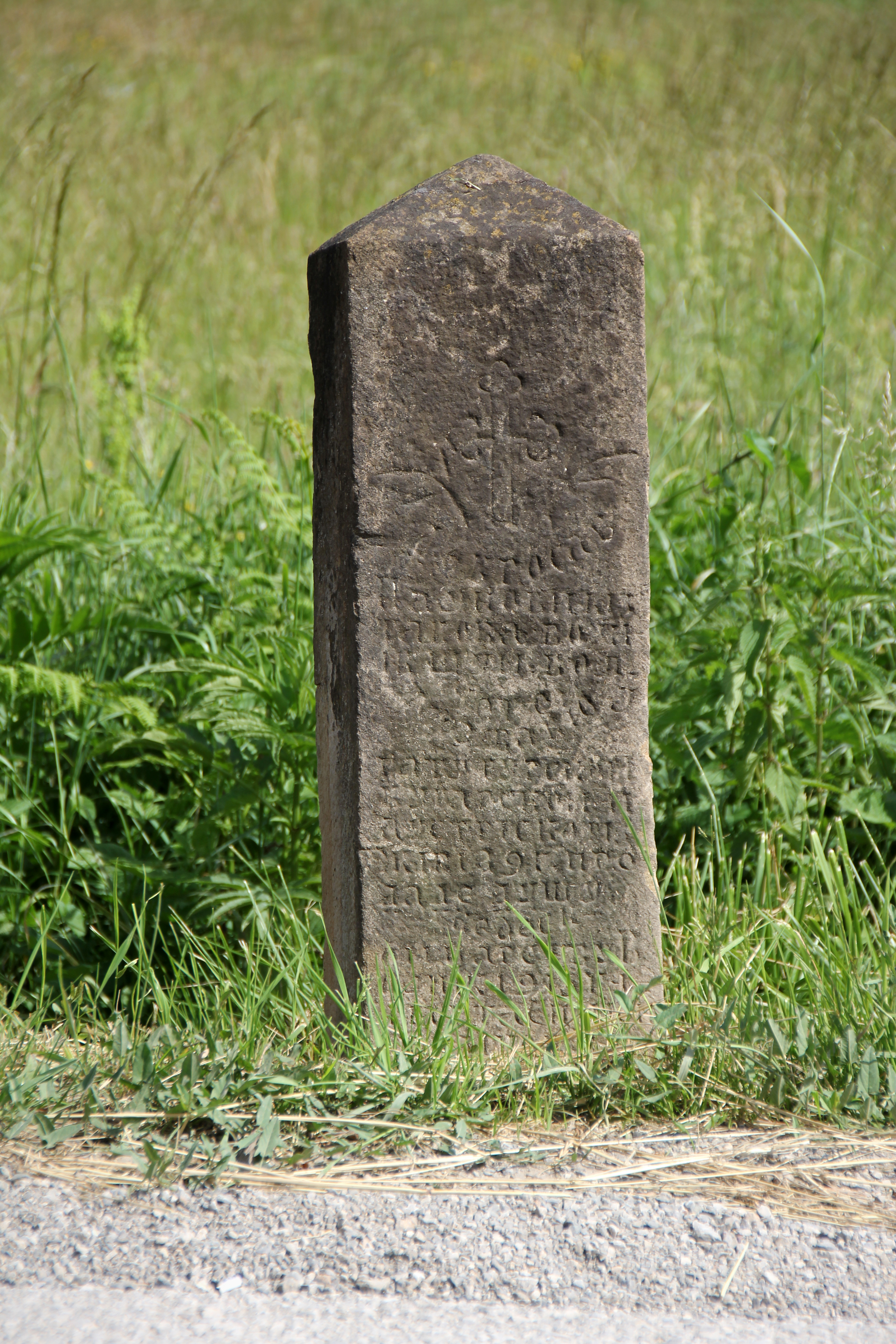 Roadside tombstone erected in memory of Dobrosav Paunovic. It is located in the village of Takovo (the municipality of Gornji Milanovac), Serbia.